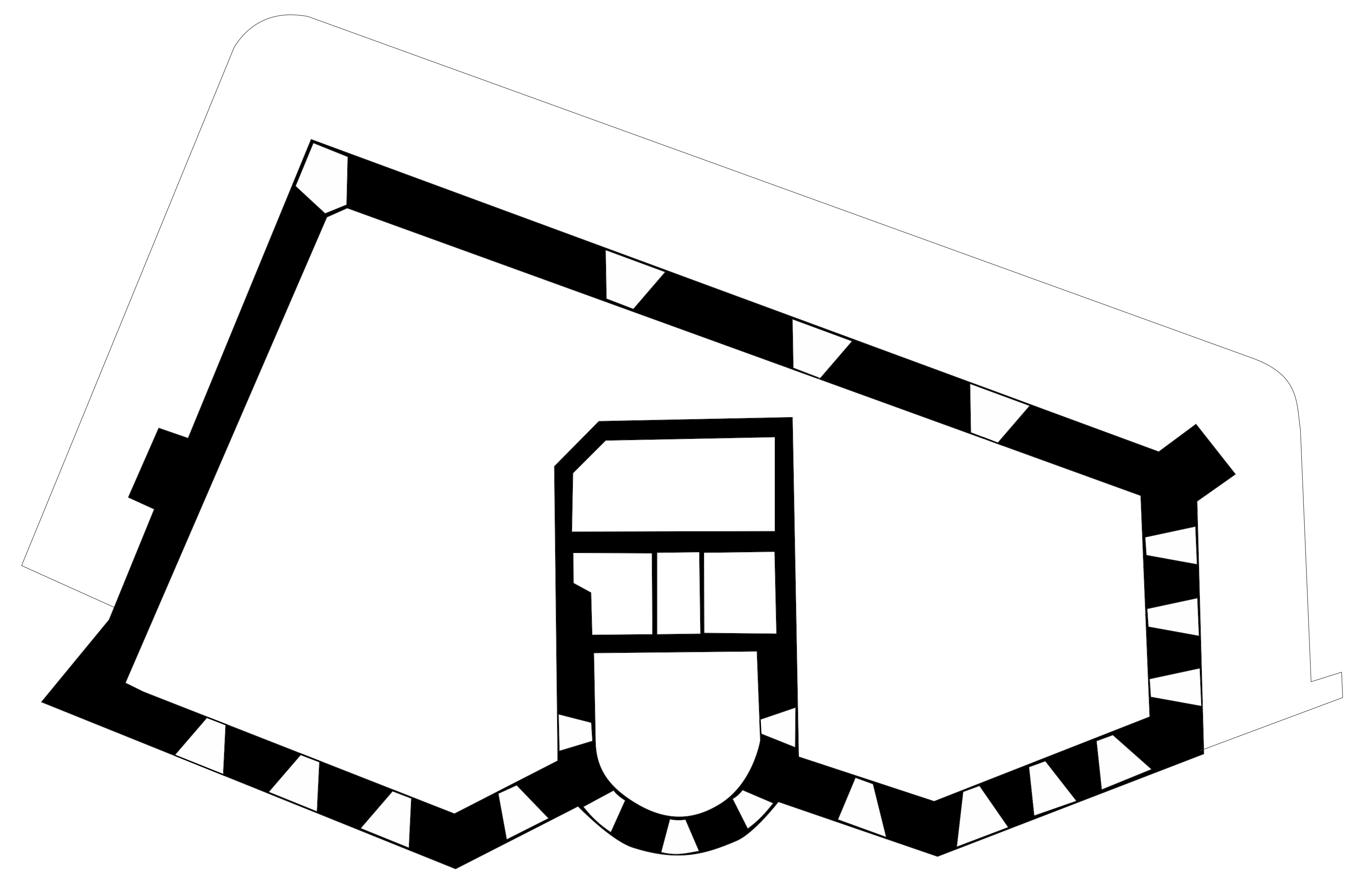 Plan of West Tilbury Blockhouse; after description in "The History of the King's Works, V.4"